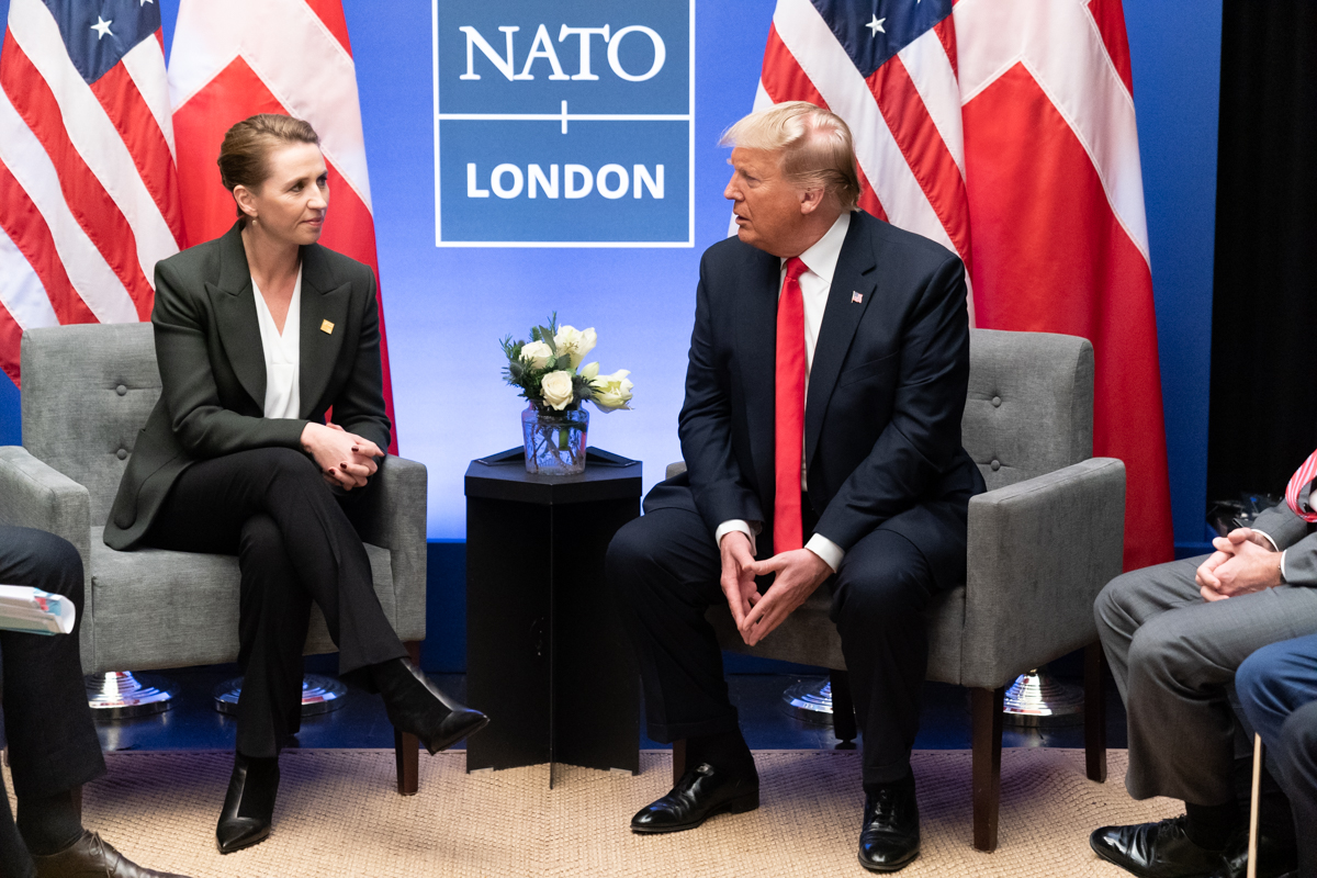 President Donald J. Trump participates in a pull-aside meeting with the Prime Minister of the Kingdom of Denmark Mette Frederiksen during the North Atlantic Treaty Organization (NATO) 70th anniversary meeting Wednesday, Dec. 4, 2019, in Watford, Hertfordshire outside London. (Official White House Photo by Shealah Craighead)